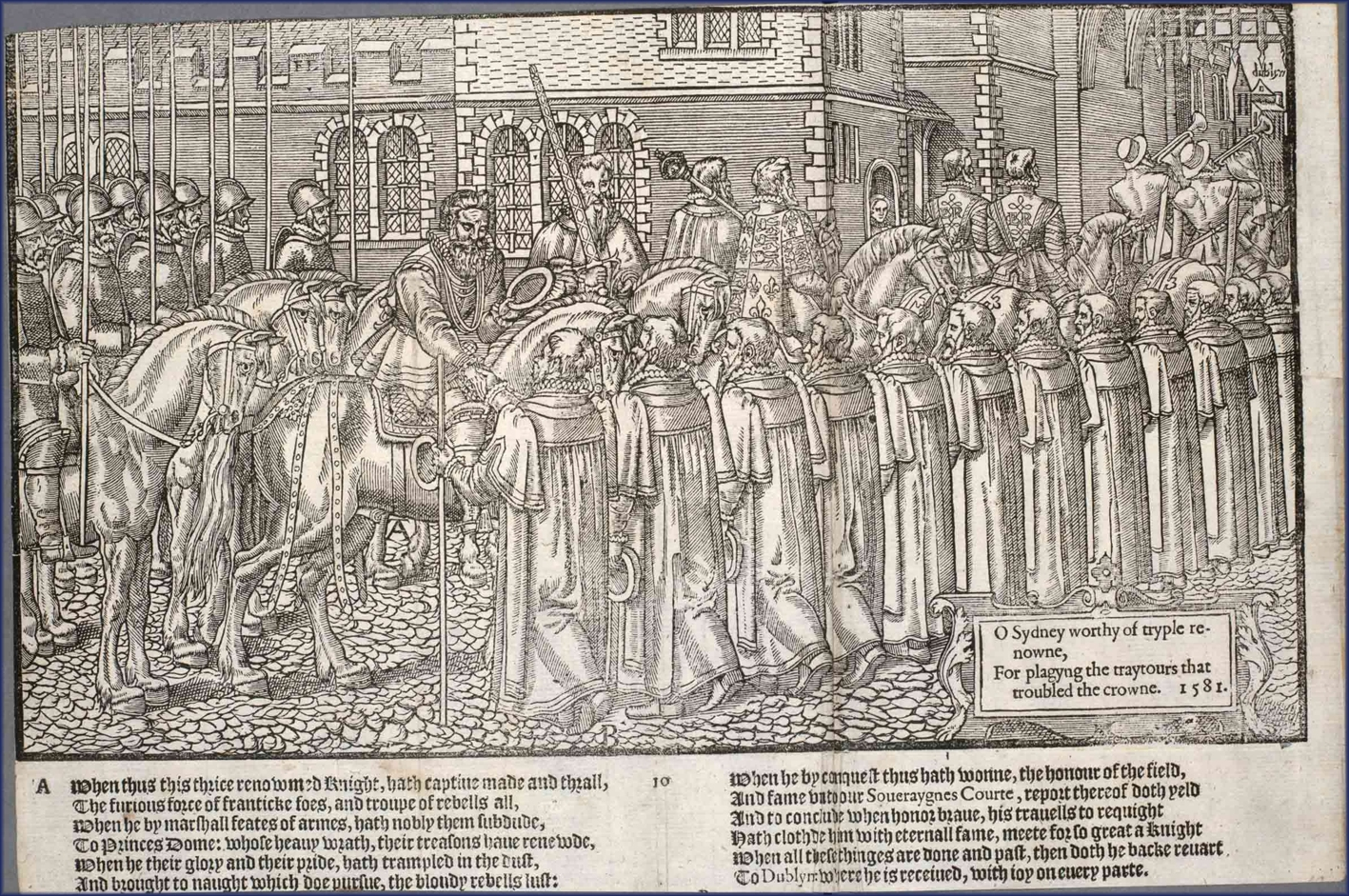 A plate originally from The Image of Irelande, by John Derrick, published in 1581. This image was taken from this Edinburgh University Library website - [1], with the description - "Sir Henry Sidney returns in triumph to Dublin Castle and is received by the Lord Mayor and Aldermen".